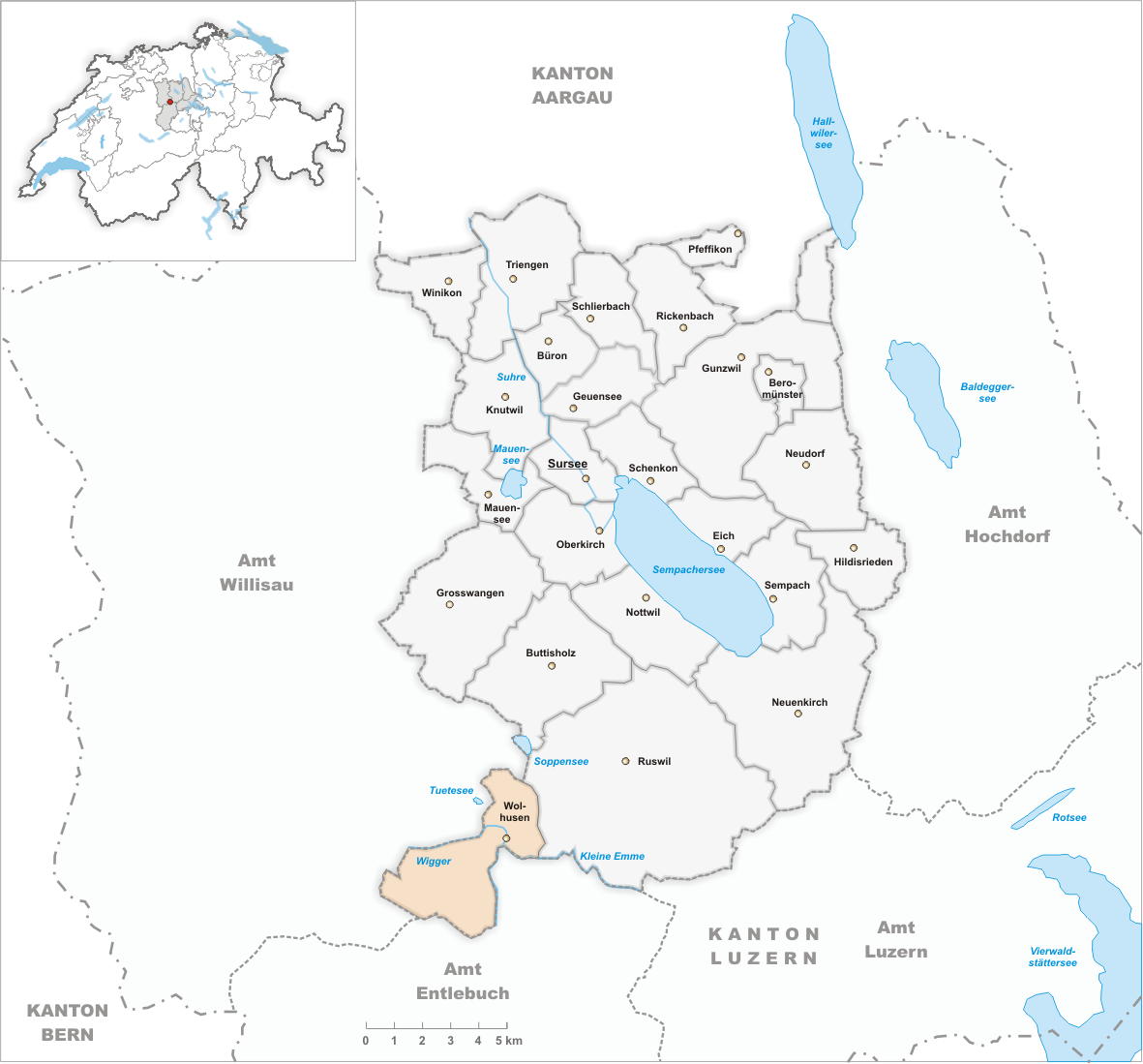 Municipality Wolhusen